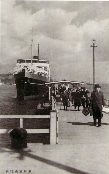 Niihama Port in Niihama, Ehime pref., Japan.